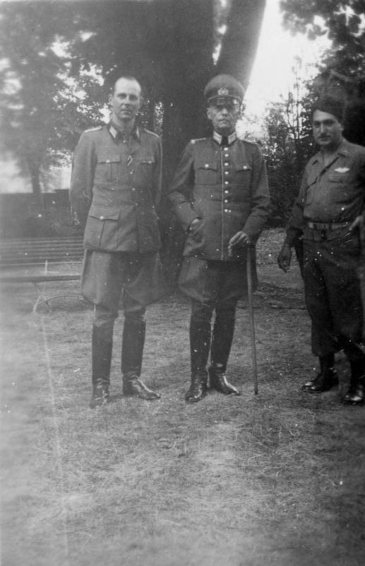 von Rundstedt and son whilo a prisoner in Wiesbaden s/sgt. Brisecha